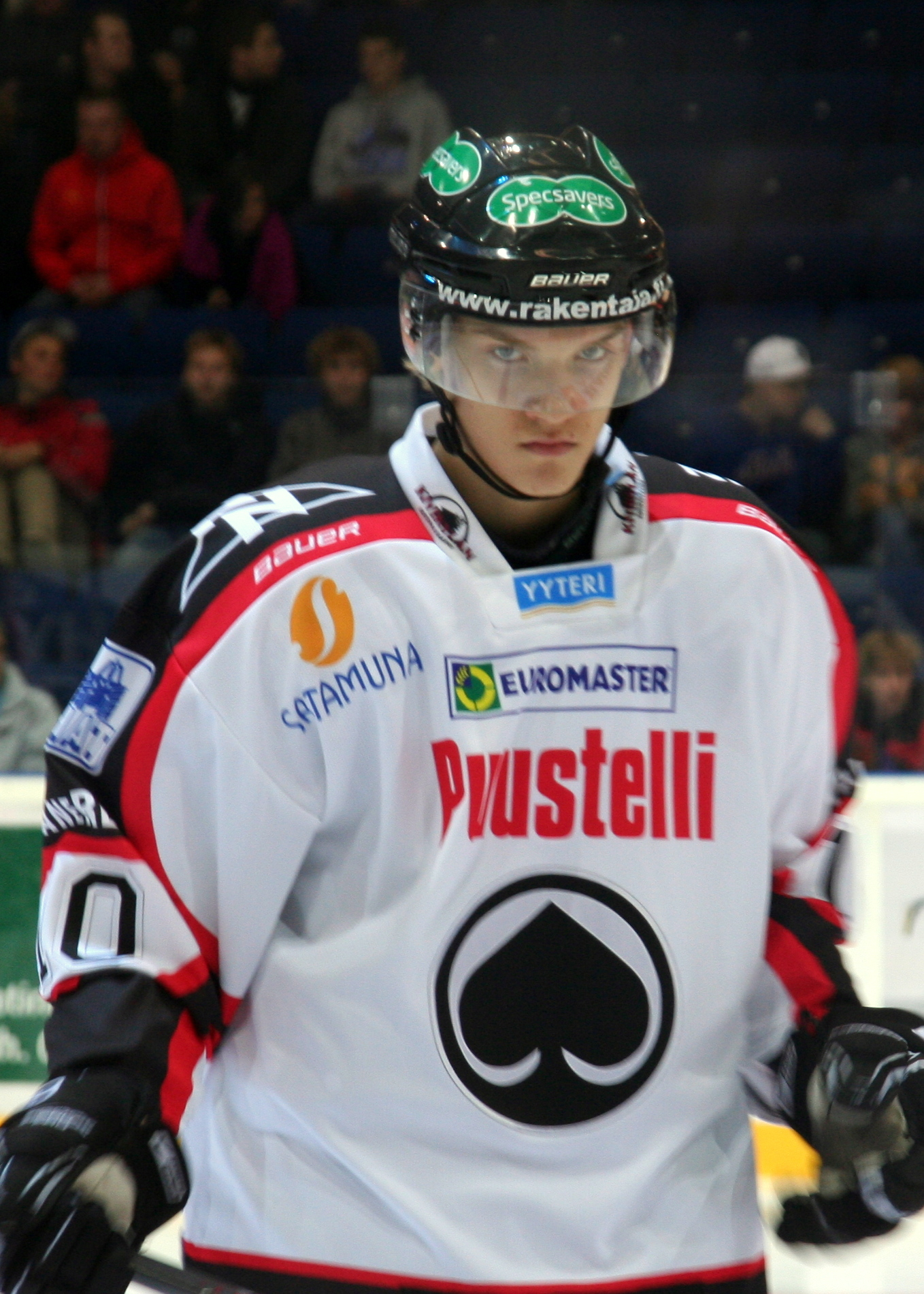 Ice Hockey Team Porin Ässät Attacker #10 Joel Armia